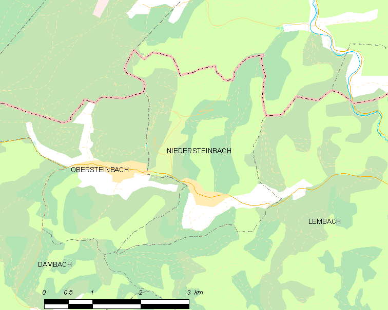 Map of French municipality